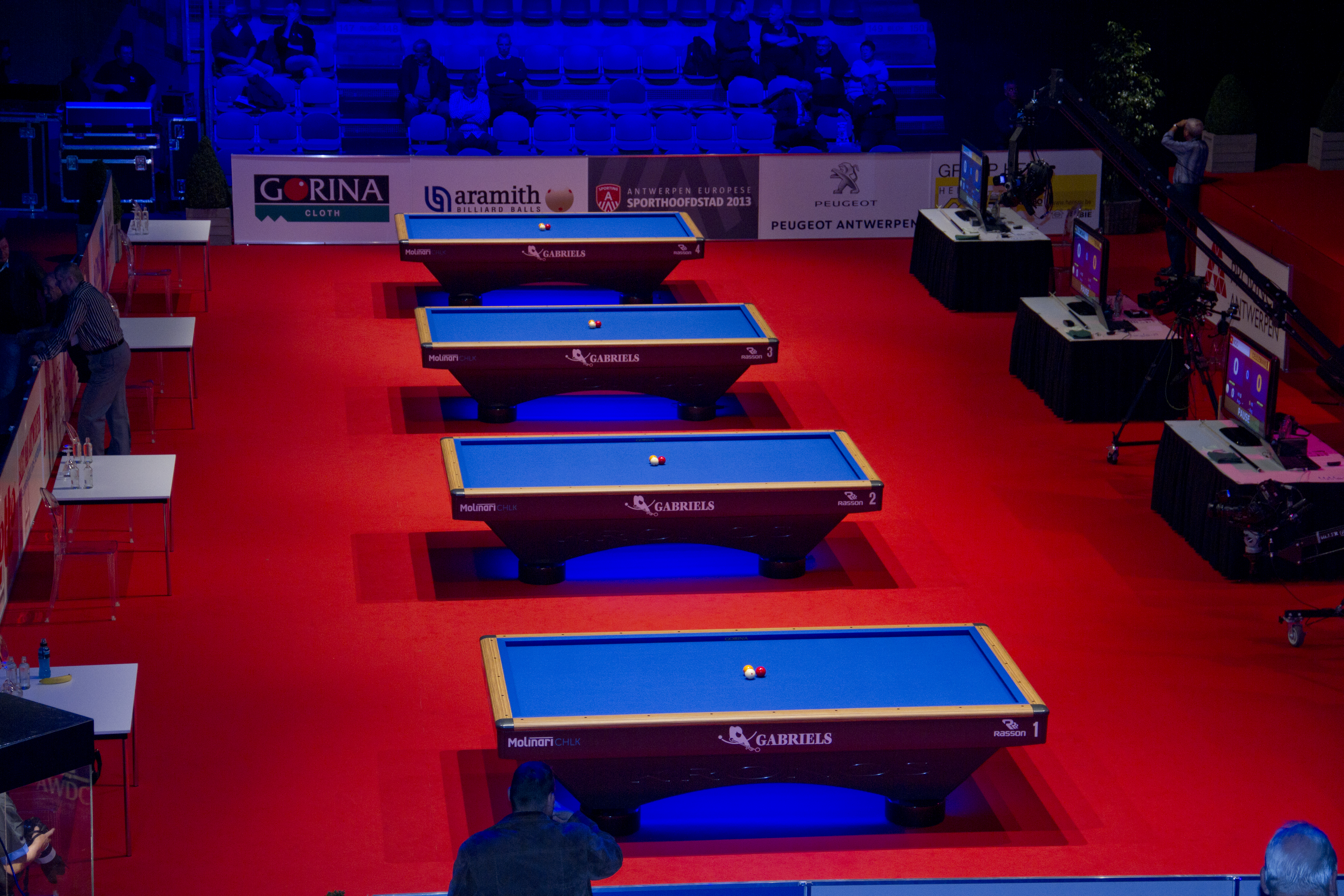 Group matches-Part 5 Match 1: Jérémy Bury (FRA) vs. Michael Lohse (DEN) Match 2: Ngo Dinh-Nai (VNM) vs. Peter Ceulemans (BEL) Match 3: Torbjörn Blomdahl (SWE) vs. Javier Teran (ECU) Match 4: Frédéric Caudron (BEL) vs. Andrea Bitetti (ITA)